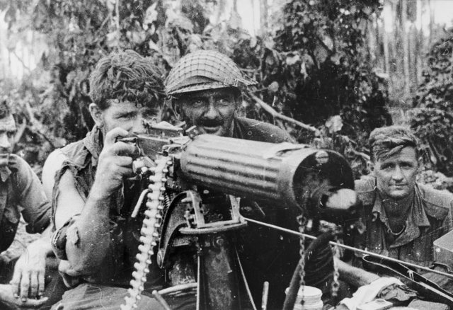 Australian soliders manning a Vickers machine gun at Sanananda in January 1943